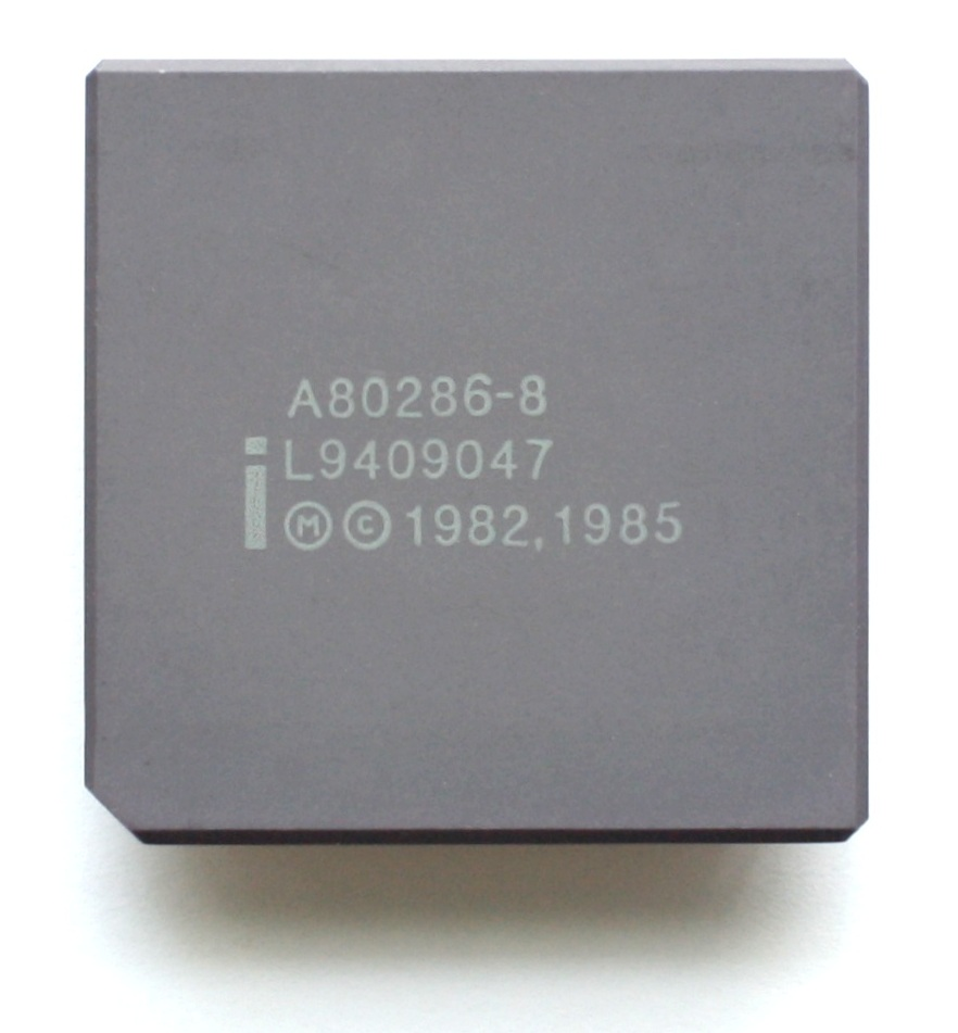 CPU Intel i286 PGA